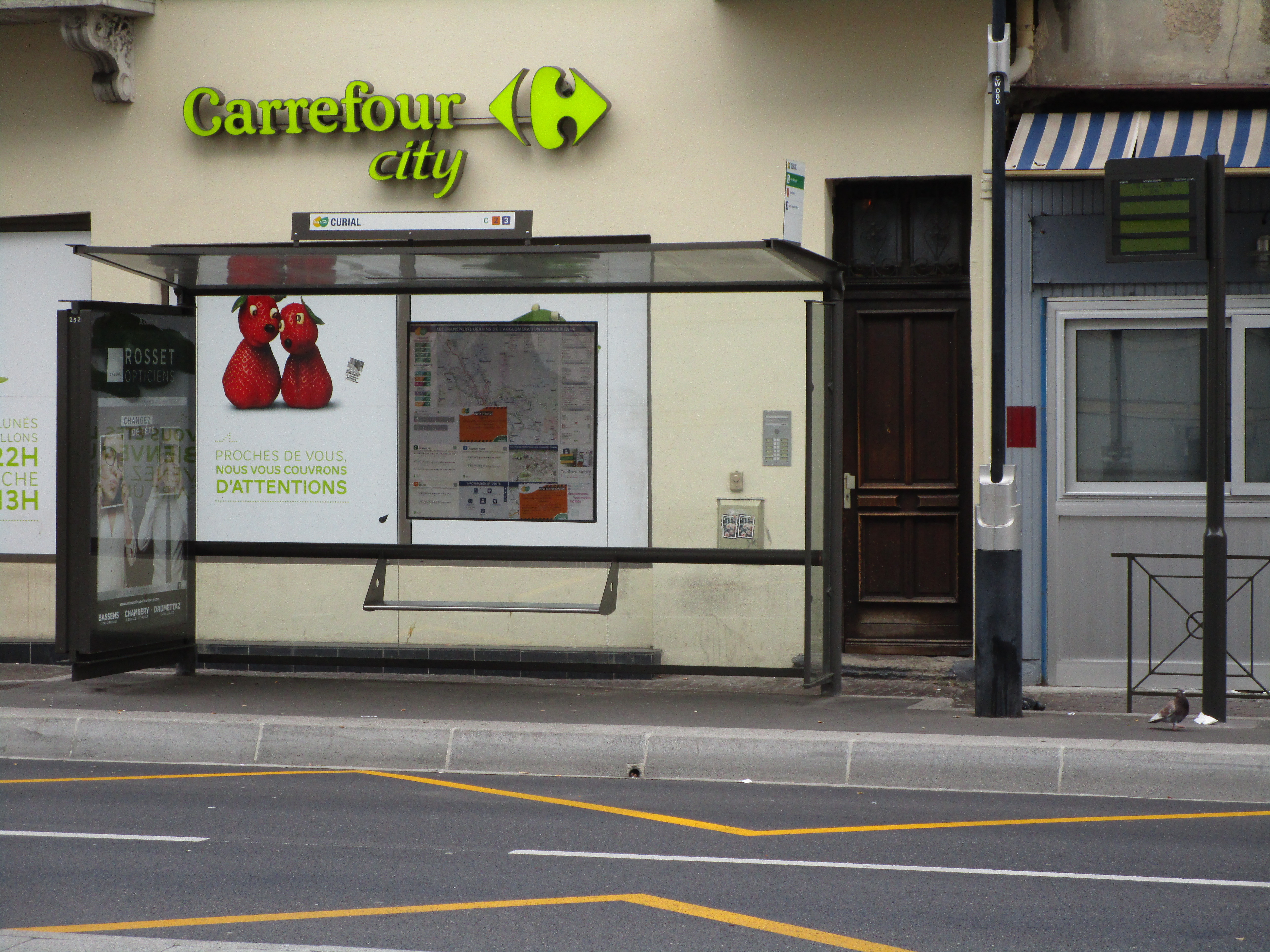 The bus stop Curial in Chambéry on December 16, 2016.